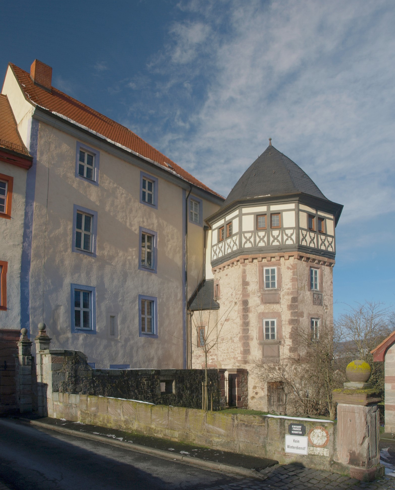 View of blue castle (part of castle Tann) in town Tann (Rhön). Taken from the street Schloß-Straße